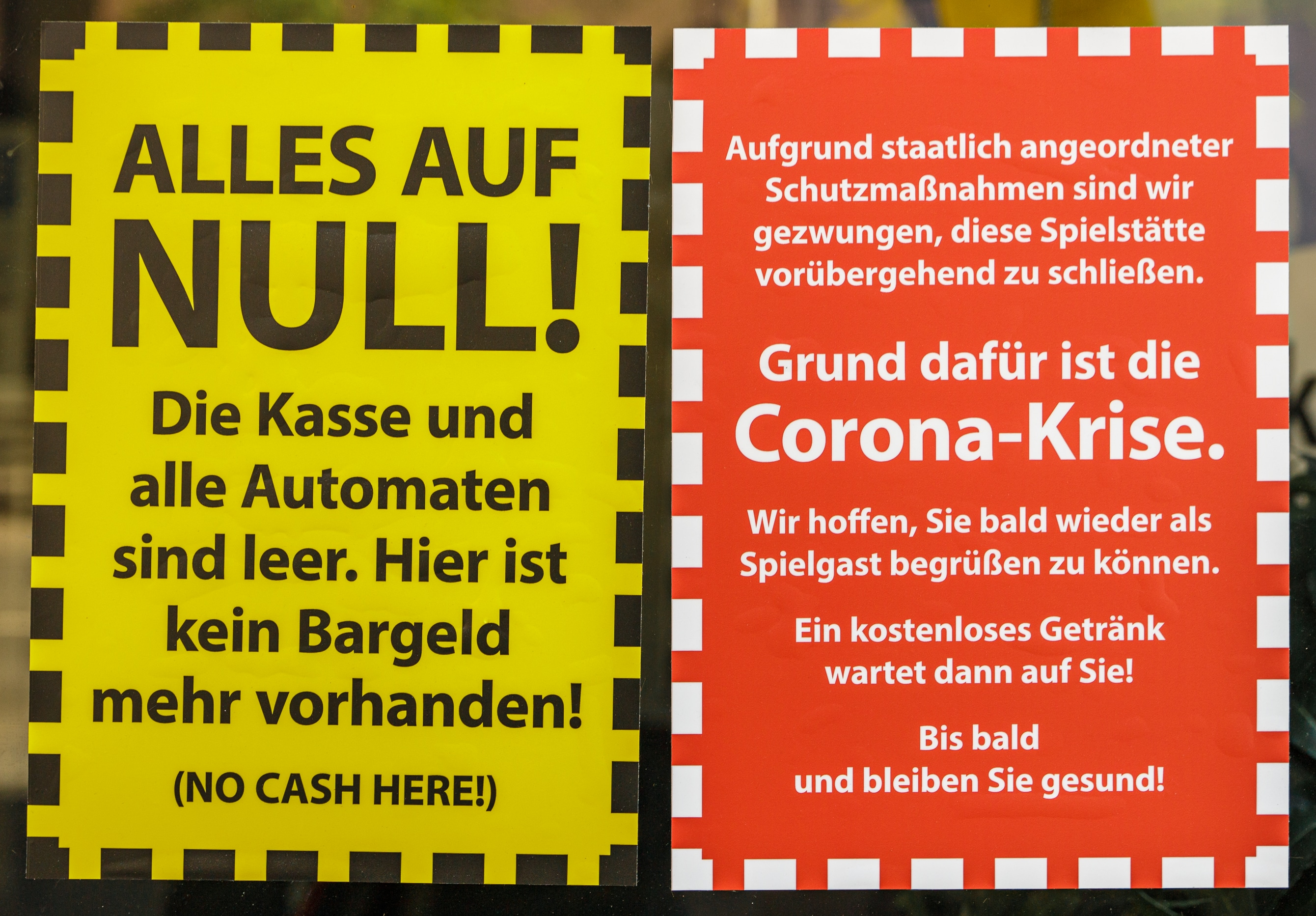 Information signs on a gambling hall